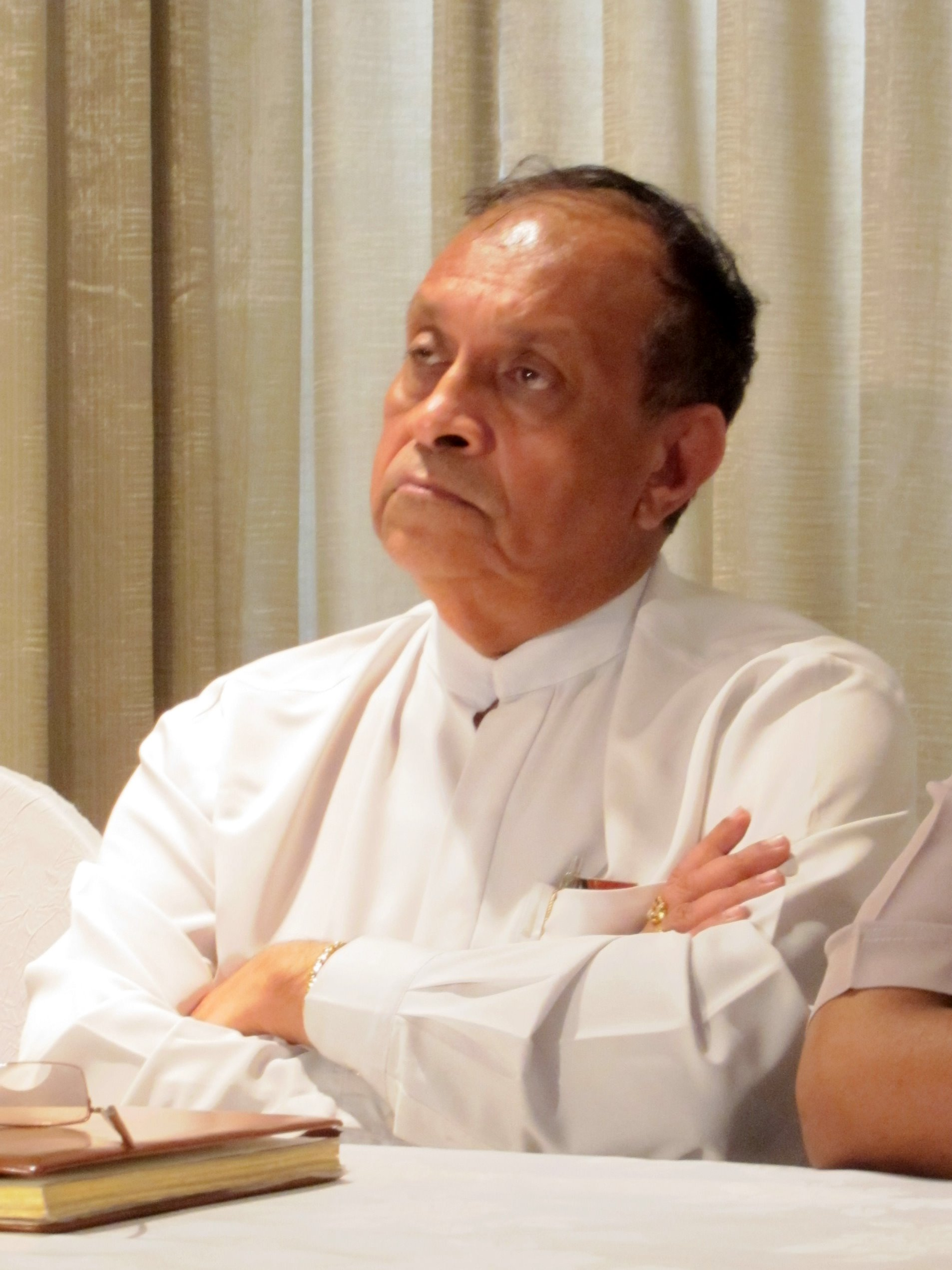 Karu Jayasuriya, deputy leader of the United National Party